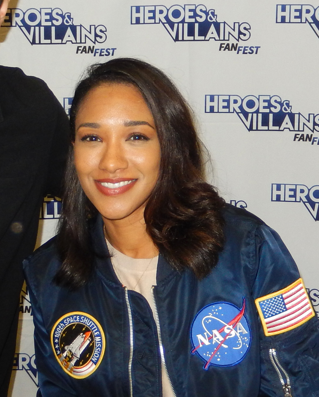 Star of The Flash. Heroes & Villains Fan Fest, Secaucus, NJ, September 16, 2017.